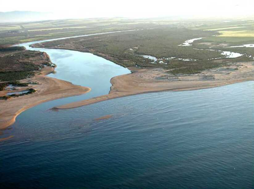 Summary AUtorisation de copyright:accordée par le webmaster Bismuth Photo:Imad Cherkaoui Image:embouchure de la Moulouya Licensing